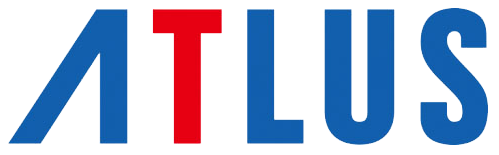 Atlus' logo as of 2014